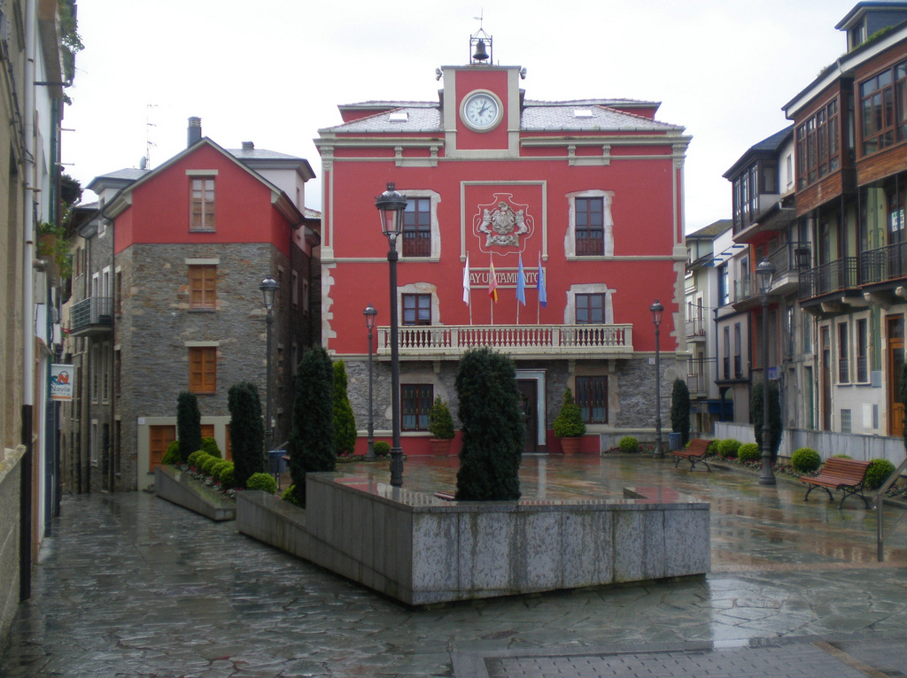 Navia City Council